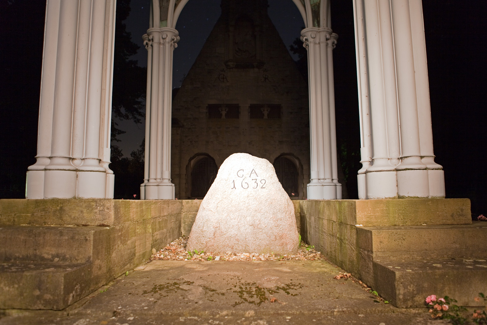 Gustav II Adolf memorial in Lützen, the canopy was created by Schinkel in 1837. – The picture was first published in b/w in the book "Die Südharzreise" ("The South Harz Journey"), by SuKuLTuR, Berlin, in 2010. The entire book was released under CC by-nc-sa 3.0, all pictures have been re-licensed under CC by-sa, see user page for details. – Picture taken with a Canon EOS 5D Mark II.